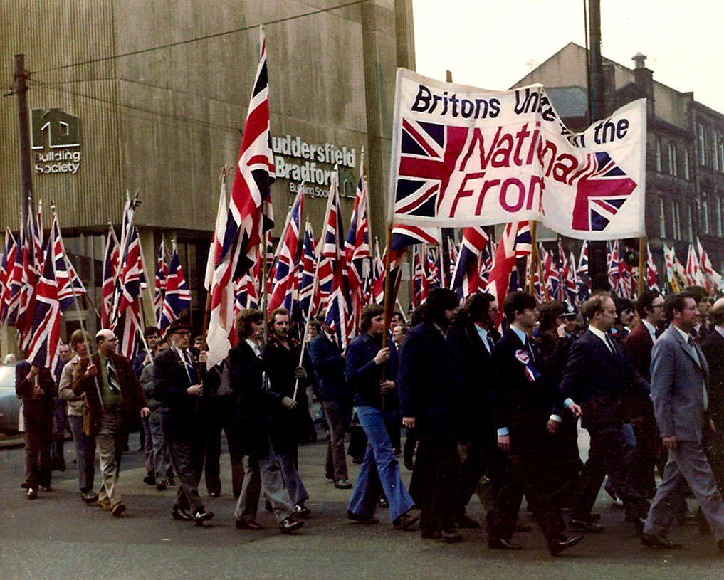 National Front march in Yorkshire, Great Britain. 1970s.